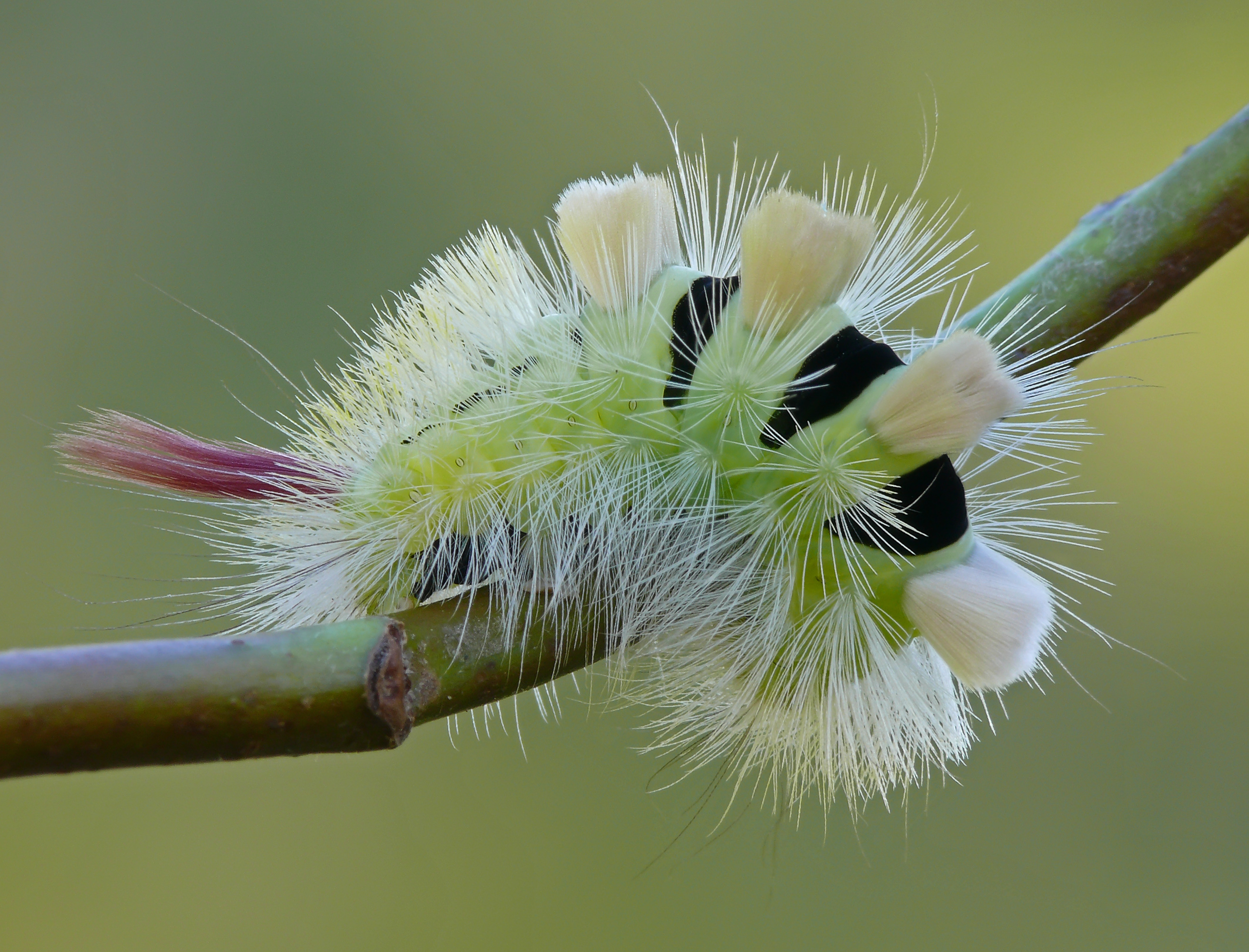 The Pale Tussock caterpillar (Calliteara pudibunda)